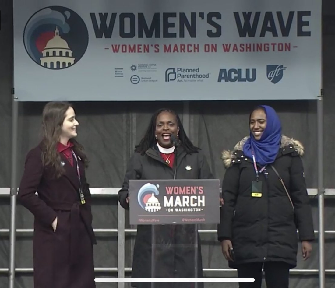 Transgender activist Abby Stein, Middle Collegiate Church senior minister Rev. Jacqui Lewis, and Muslim.activist Remaz Abdelgader, leading the spiritual invocations at the opening of 2019 Women's March rally, in Washington, DC.